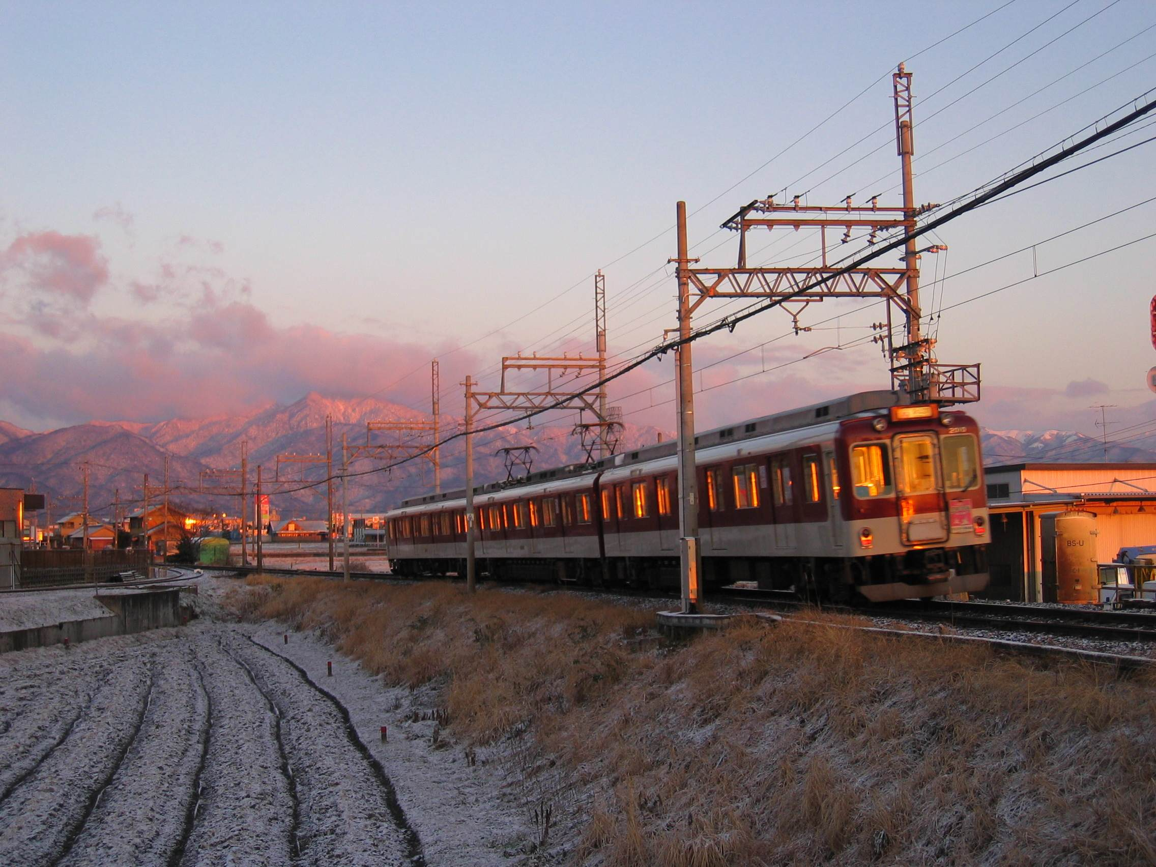 Kintetsu local bound for Yunoyama on the Yunoyama Line. Taken between Sakura Station and Komono Station.